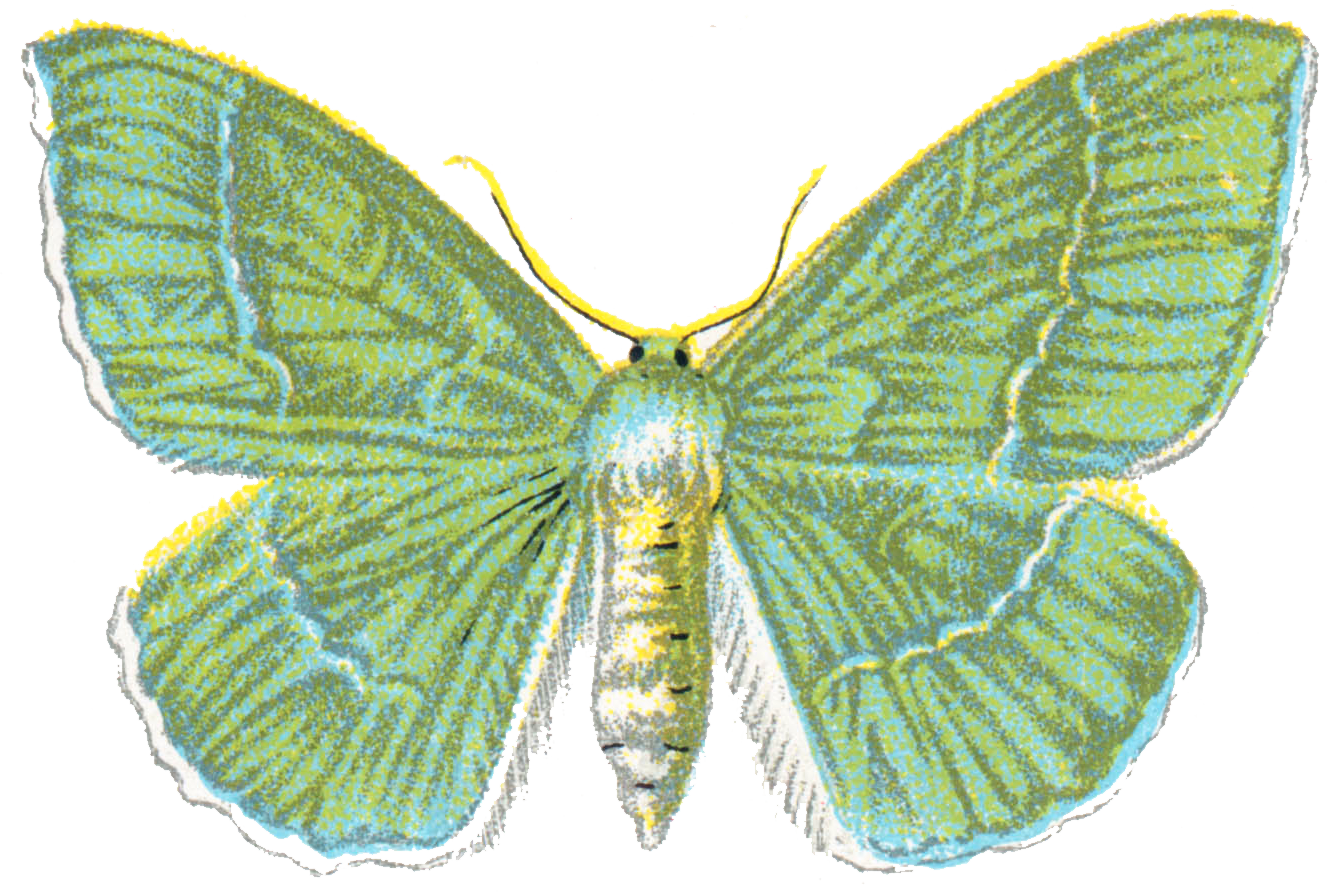 Large Emerald